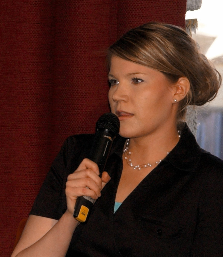 Sofia Vikman is a Finnish politician and a candidate from the National Coalition Party for European Parliament election 2009.